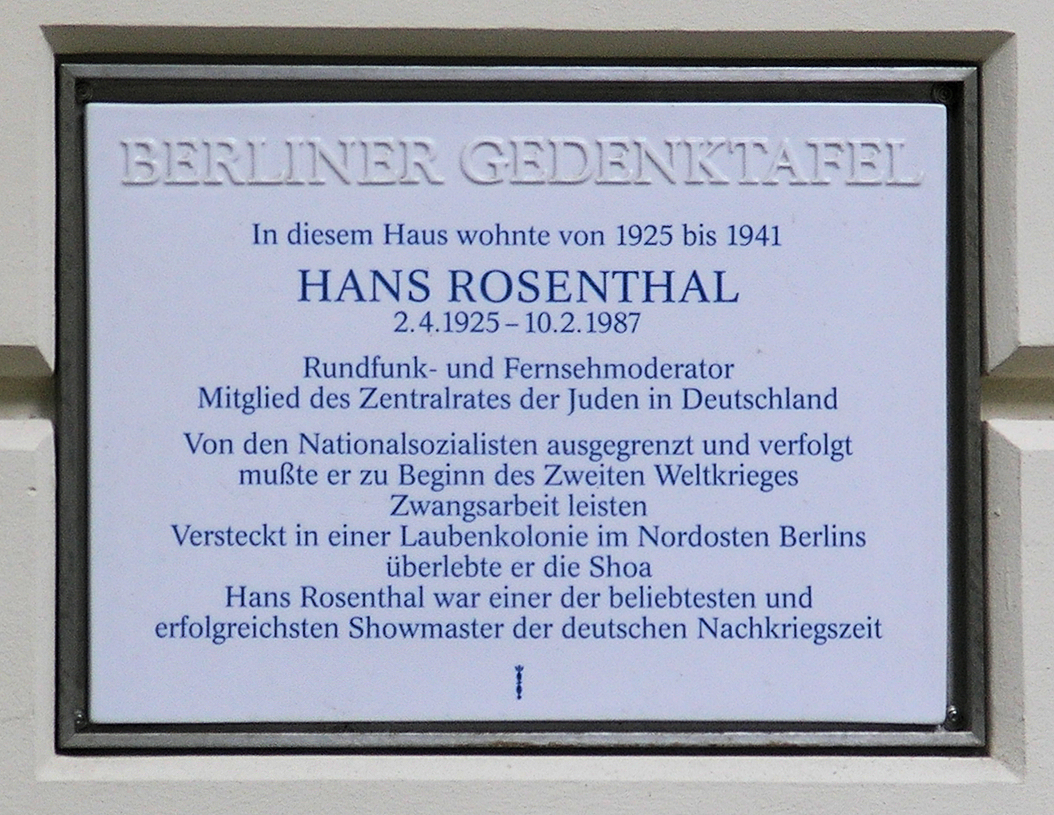 Berlin memorial plaque, Hans Rosenthal, Winsstraße 63, Berlin-Prenzlauer Berg, Germany Koordinate:52°31′58.1″N 13°25′27.6″E / 52.532806°N 13.424333°E